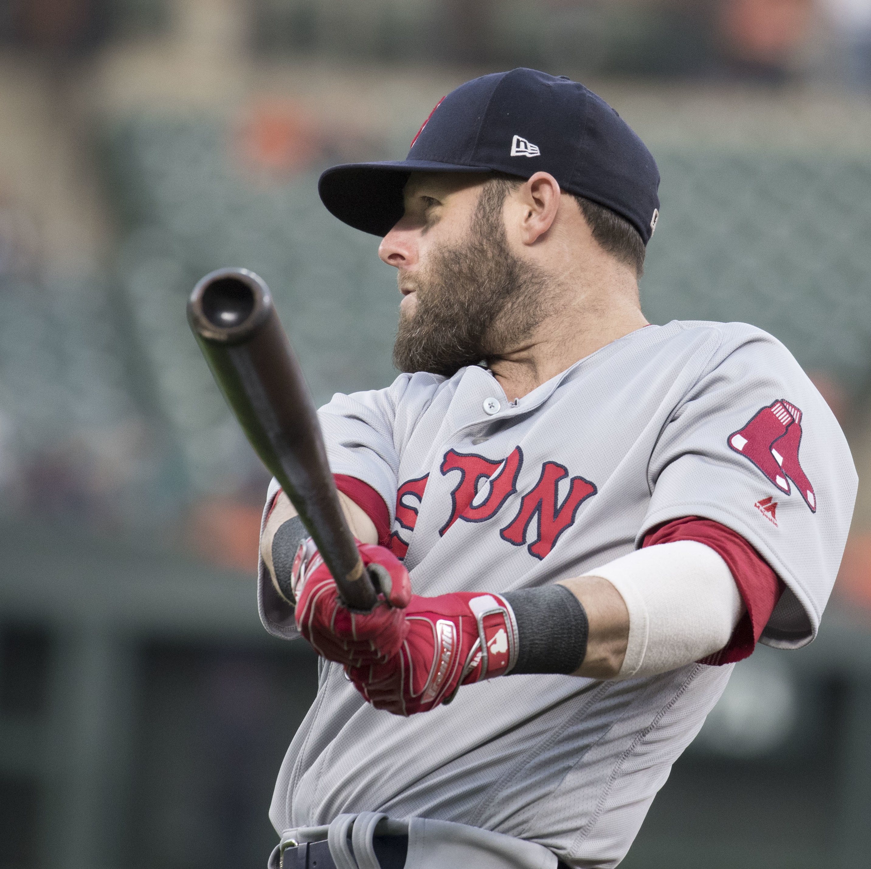 Red Sox at Orioles 9/18/17